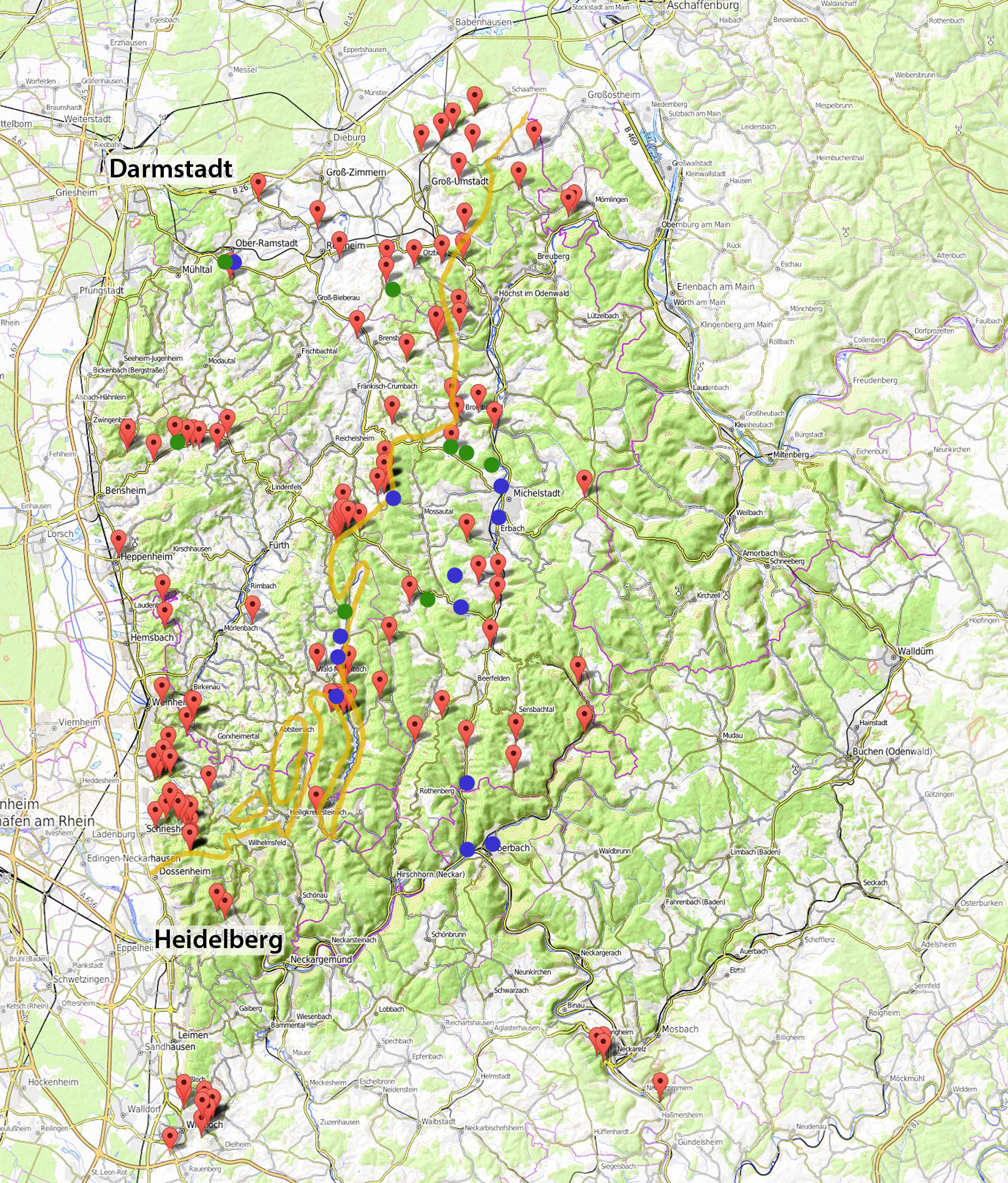 Mining in the Odenwald region. Red dots - mining sites; Blue dots - ore processing/smiths; Green dots - ore processing/furnace. Coordinate precissionː typically ̟within 25m for mining sites, ̟within 200m for other. Noteː Mining sites where only the district center (Gemarkung) is known are not shown.